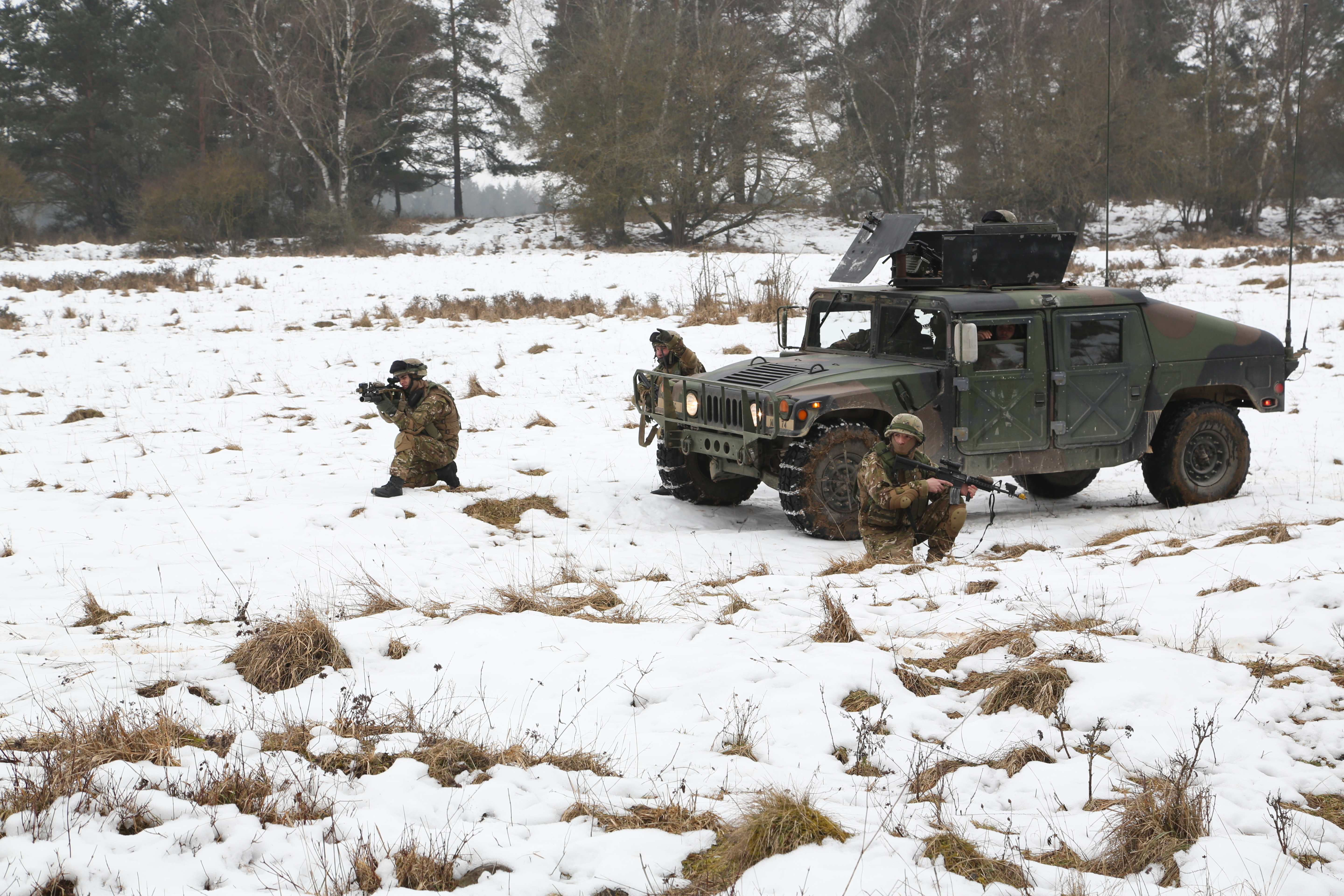 Georgian soldiers of Alpha Company, 43rd Mechanized Infantry Battalion, 4th Mechanized Infantry Brigade provide security while conducting a mounted patrol during a mission rehearsal exercise (MRE) at the U.S. Army’s Joint Multinational Readiness Center (JMRC) in Hohenfels, Germany, Feb. 18, 2015. Georgian armed forces and U.S. Marine Corps Security Cooperation Group are conducting the MRE from Feb. 2 to March 3, 2015, as part of the Georgian Deployment Program-Resolute Support Mission (GDP-RSM). The GDP-RSM, formerly the Georgian Deployment Program-International Security Assistance Force, is a program between the U.S. Marine Corps and Georgian armed forces that prepares Georgian service members to support NATO’s Resolute Support Mission in Afghanistan. (U.S. Army photo by Spc. Tyler Kingsbury/Released)